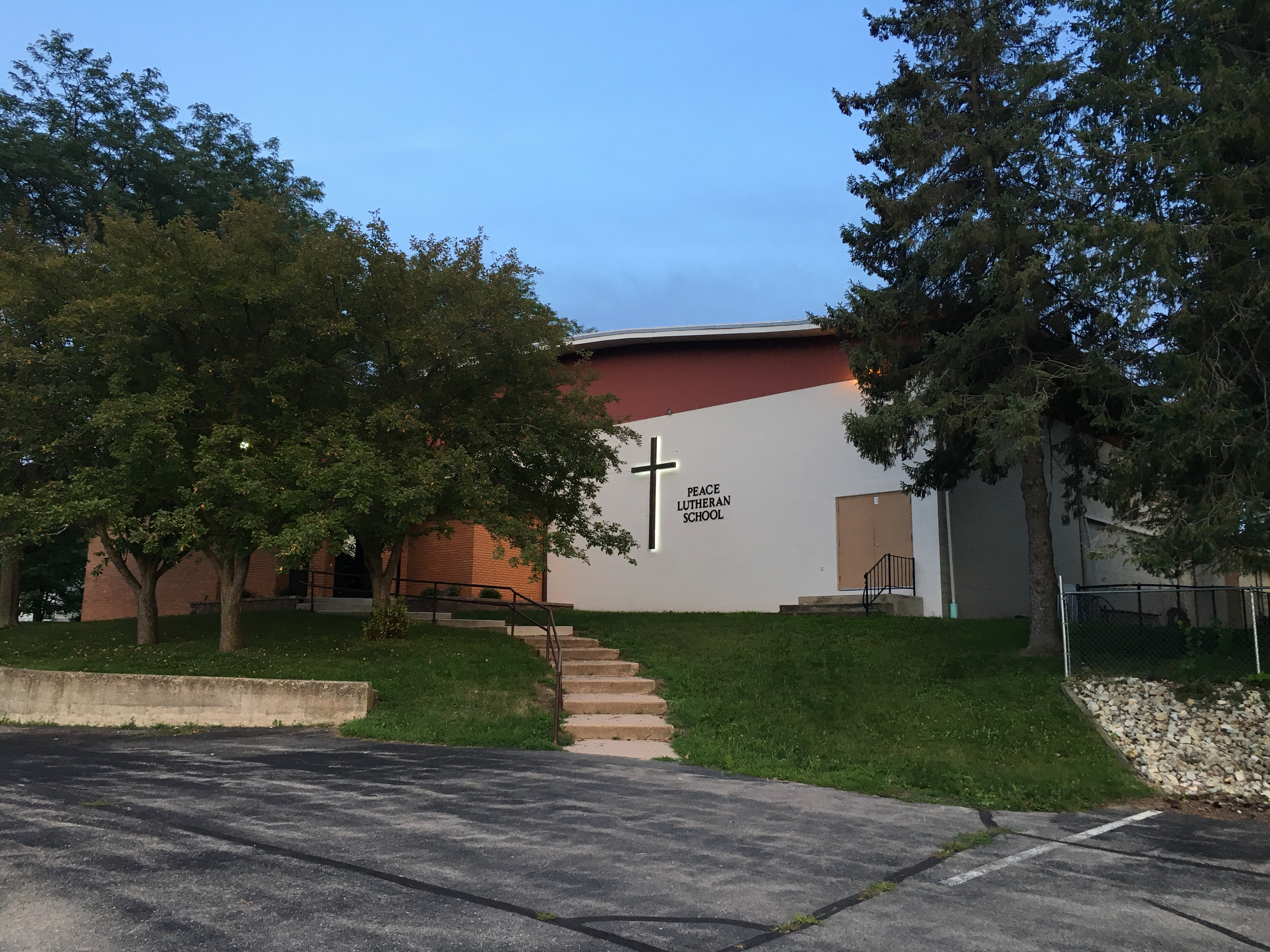 Peace Luther School is a Christian elementary school of the WELS in Green Lake, WI.